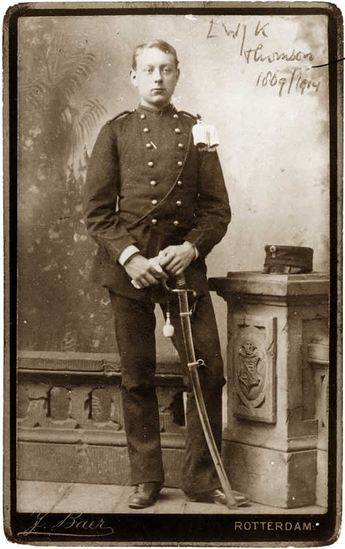 Lodewijk Thomson as cadet.